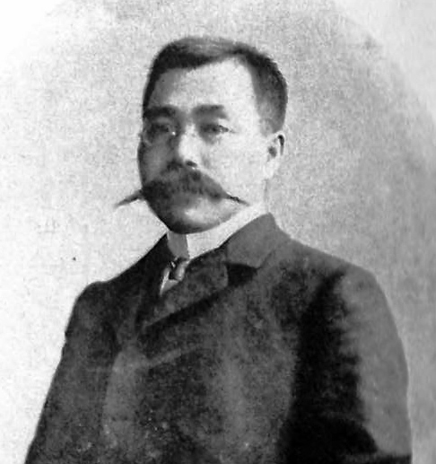 Satō Yoshinaga is a Japanese Agronomist